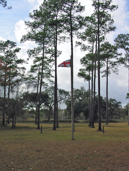 A Union Jack at Fort Gadsden, FL. Photograph by J. Williams (Jan. 5, 2004).